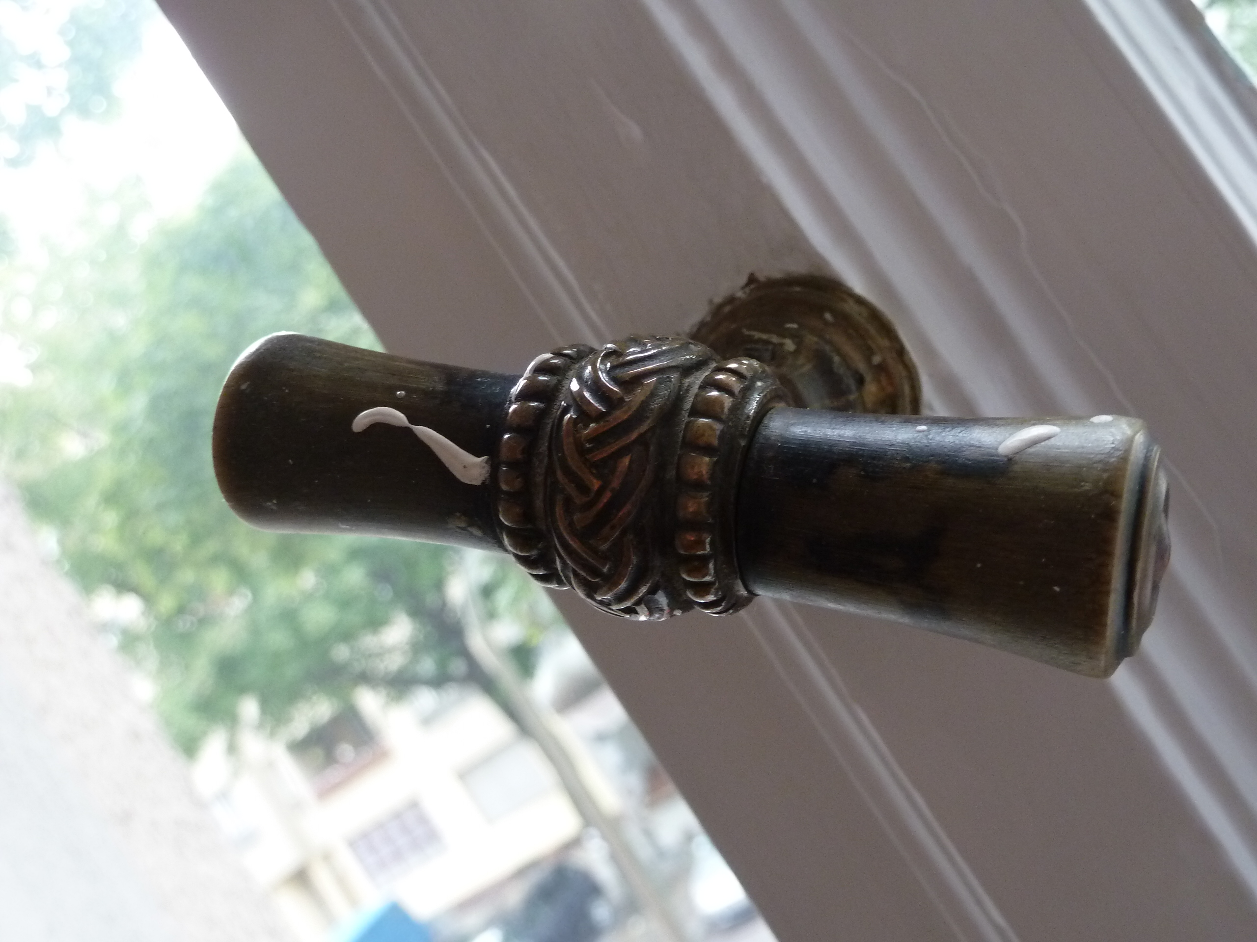 Window handle, House in Berlin, 19th century